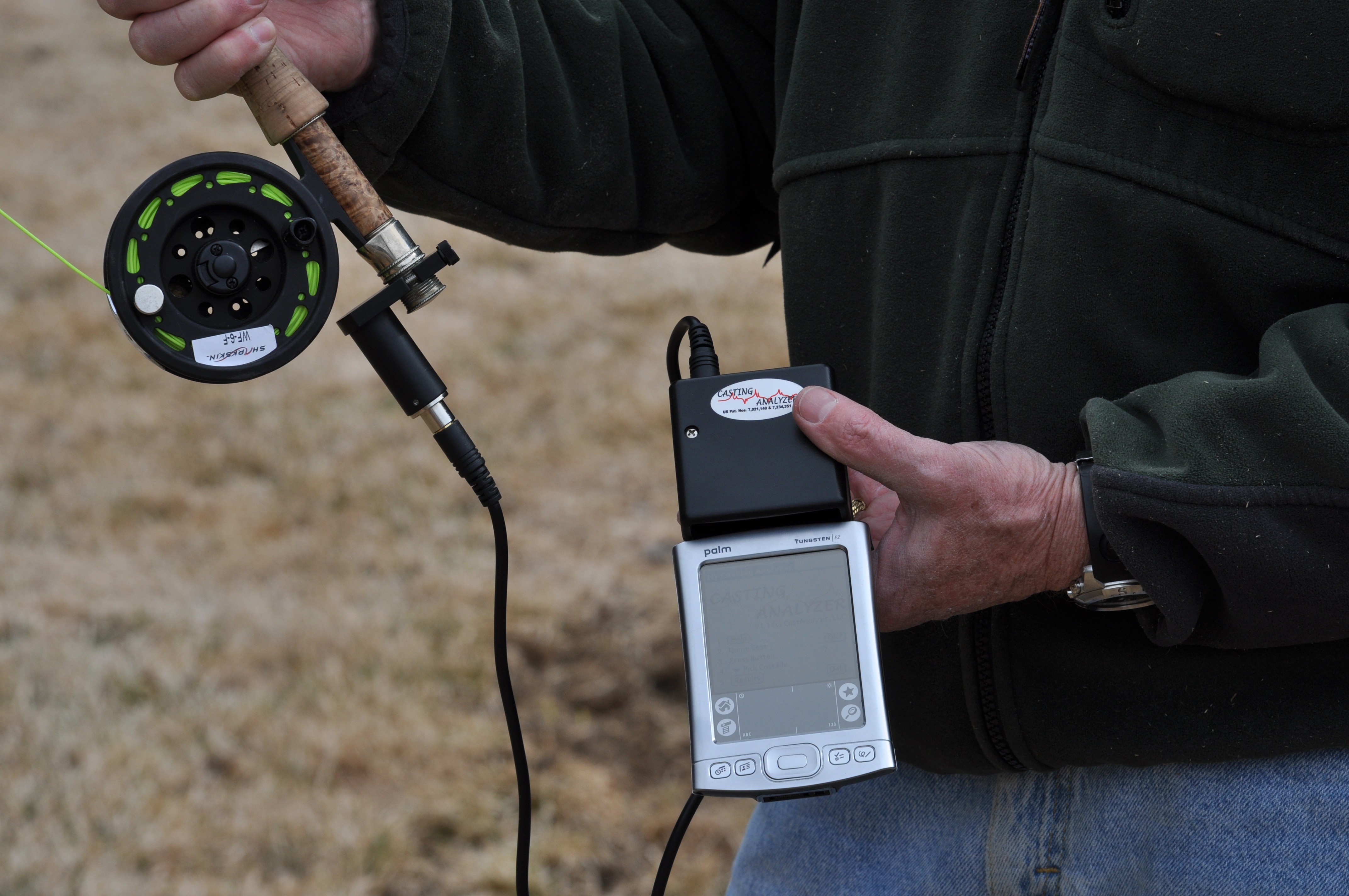 Image of Fly Casting Analyzer attached to Fly Rod